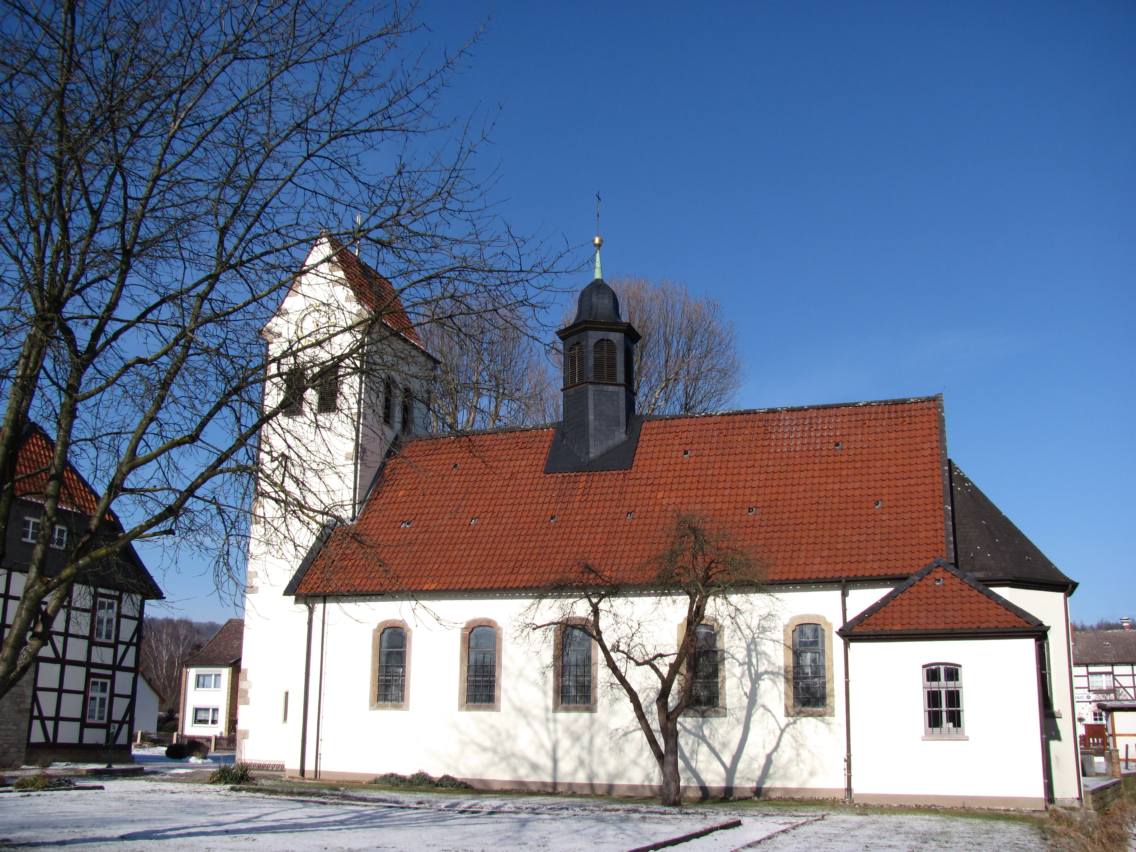 Catholic Church, Holle-Grasdorf, near Hildesheim, Lower Saxony, Germany.